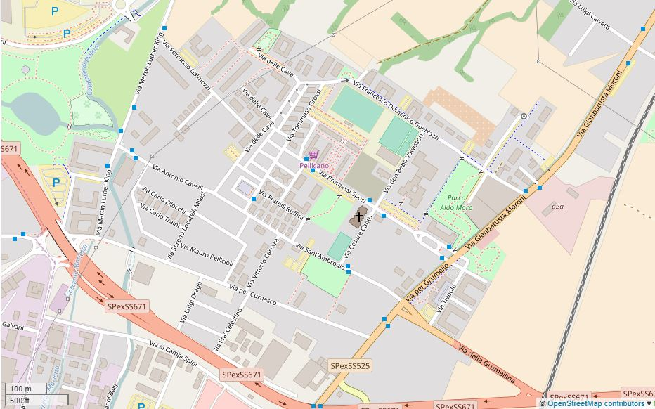 Bergamo, Villaggio degli Sposi This map may be incomplete, and may contain errors. Don't rely solely on it for navigation.